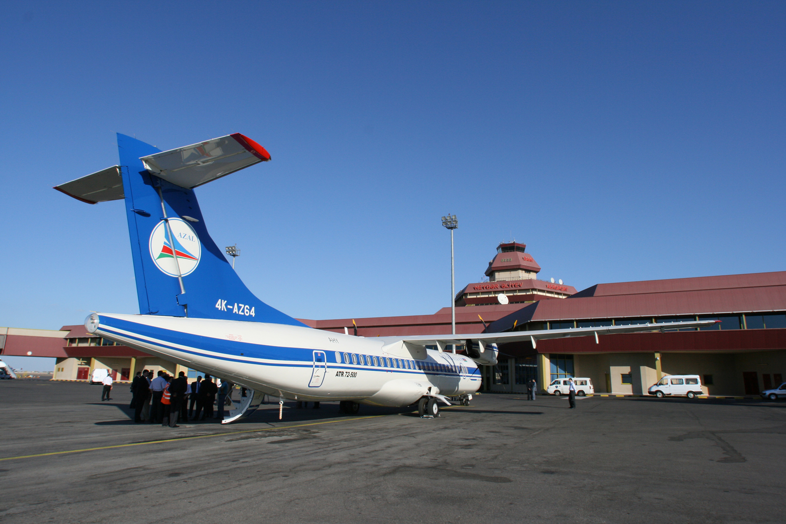 Azerbaijan Airlines ATR-72 (4K-AZ64) at the Heydar Aliyev International Airport.